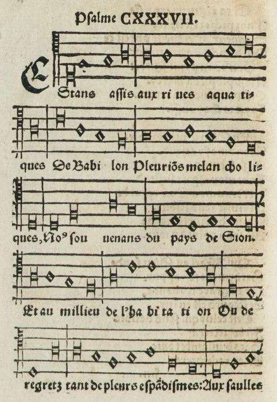 Calvins Psautier Huguenot (ed. 1539) - Psalm 137